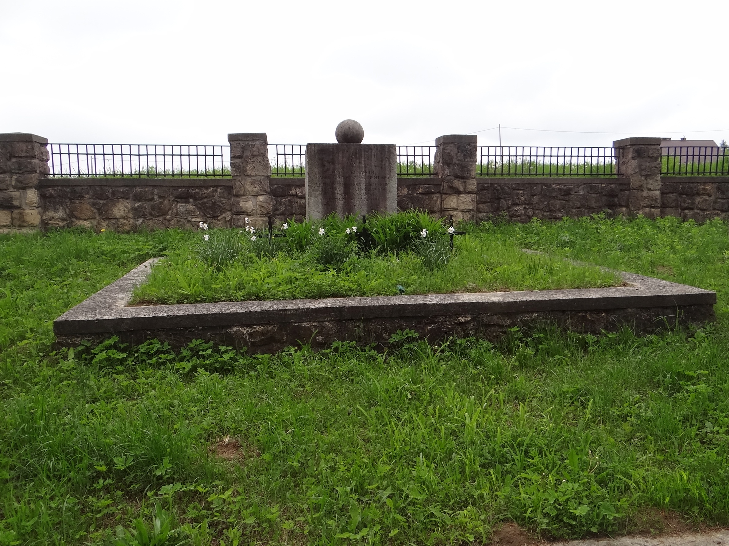 World War I Cemetery nr 116 in Staszkówka-Dawidówka